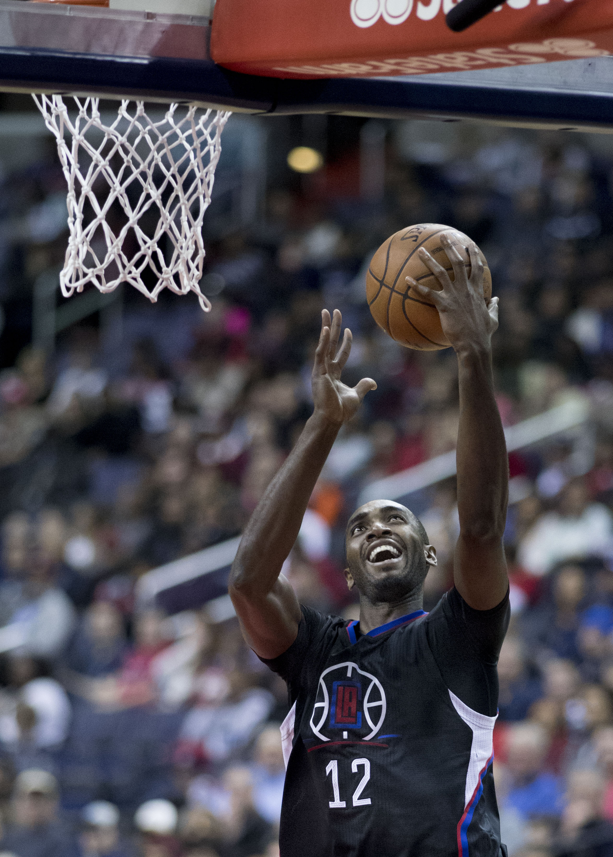 Clippers at Wizards 12/18/16